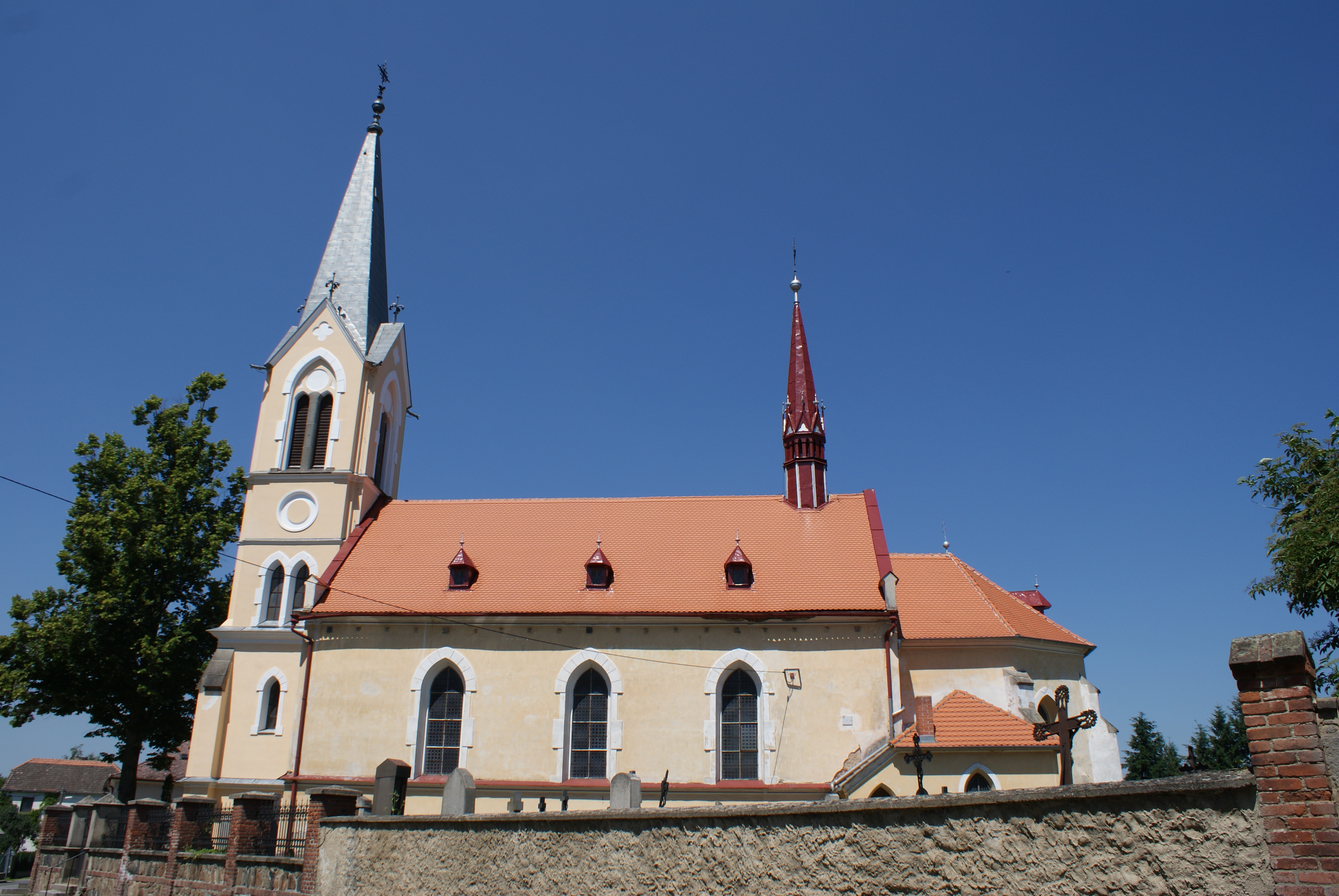 Tochovice, a village in Příbram district, Czech Republic, church.